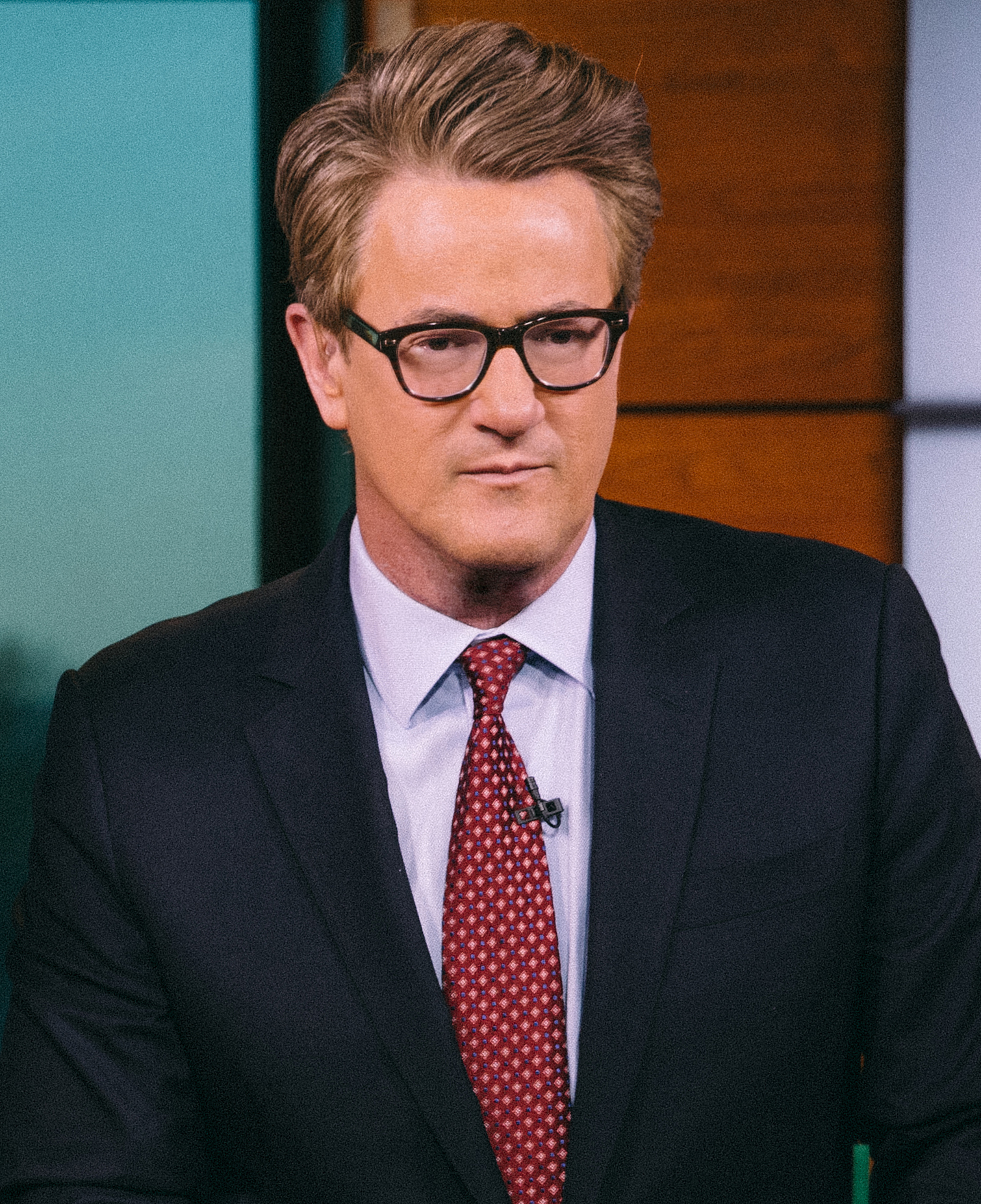 Joe Scarborough